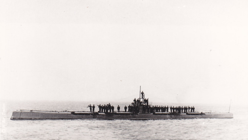 Tigr (Russian submarine, 1916)